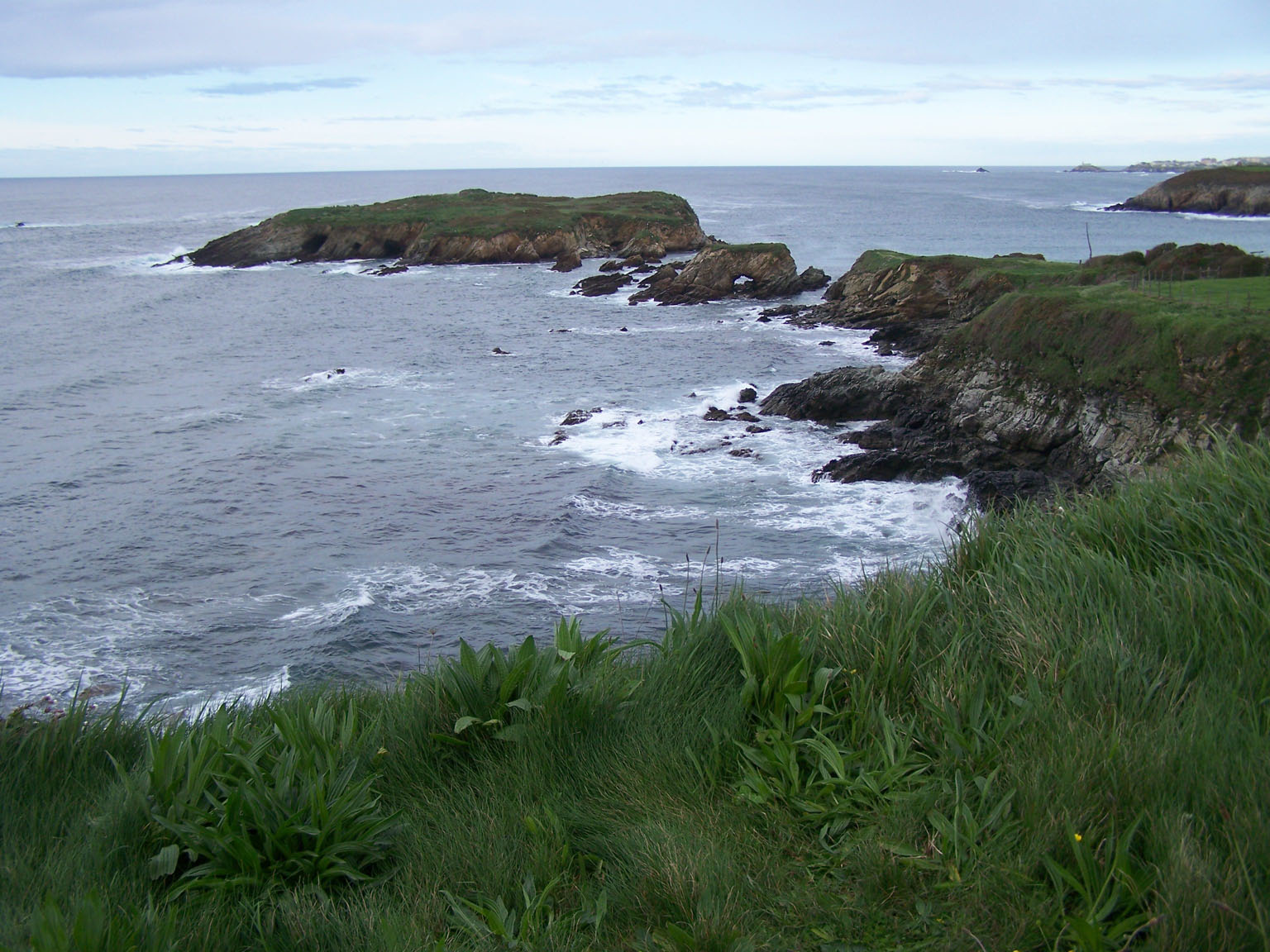 Bay of Biscay coast in Santagadea, North Spain